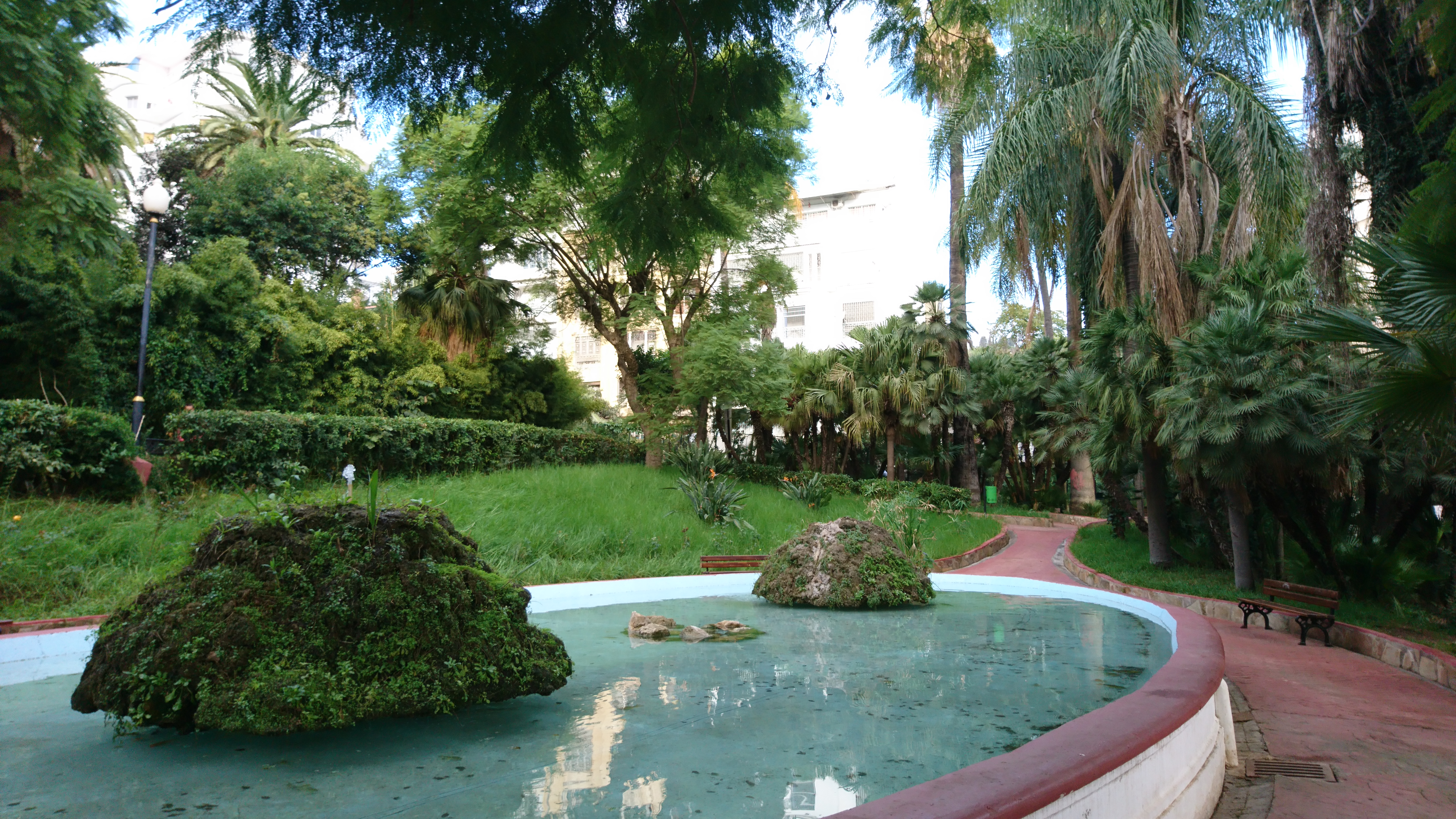 Fish pond located in the middle of the park